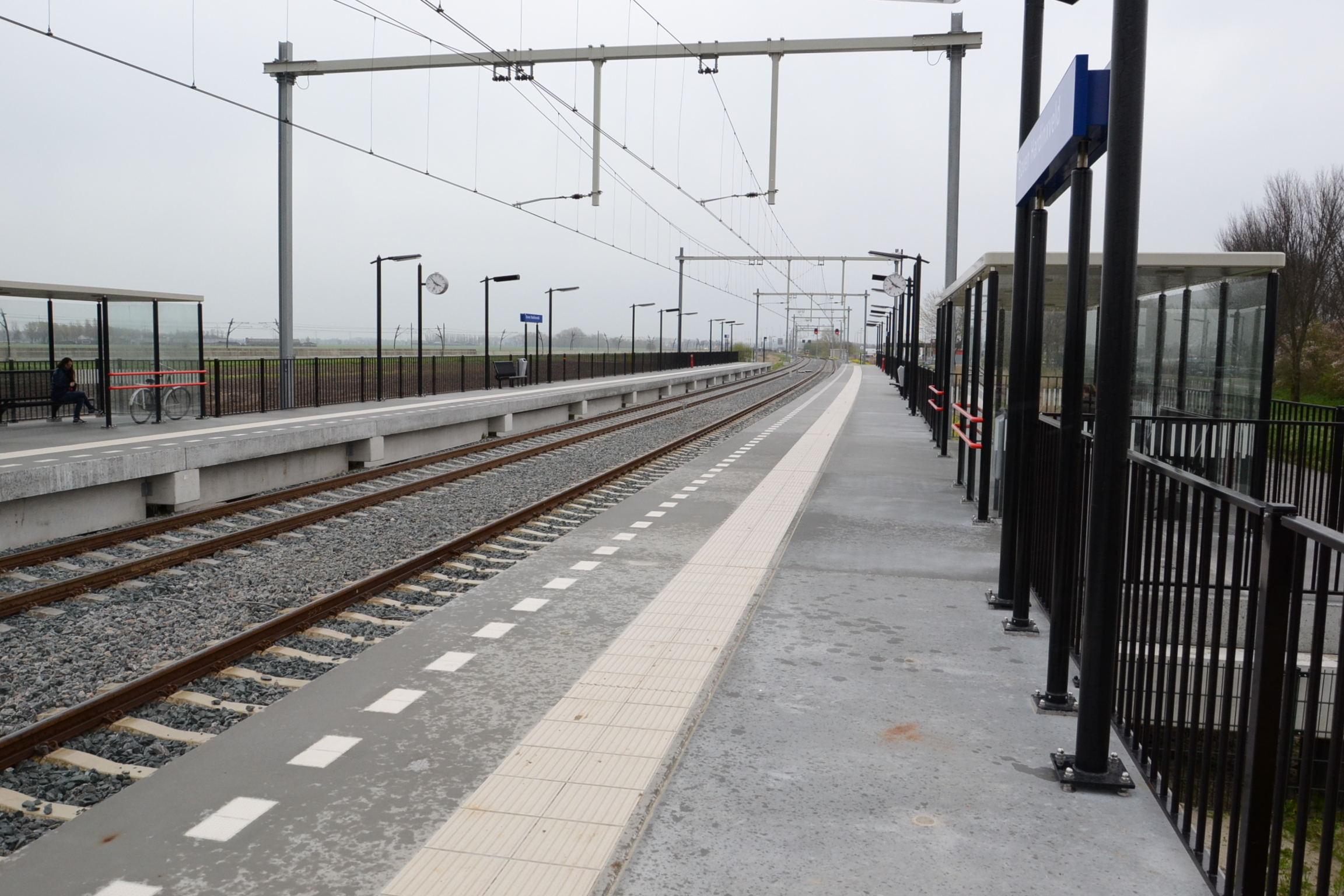 Arriva Boven Hardinxveld train station at the MerwedeLingelijn, The Netherlands.